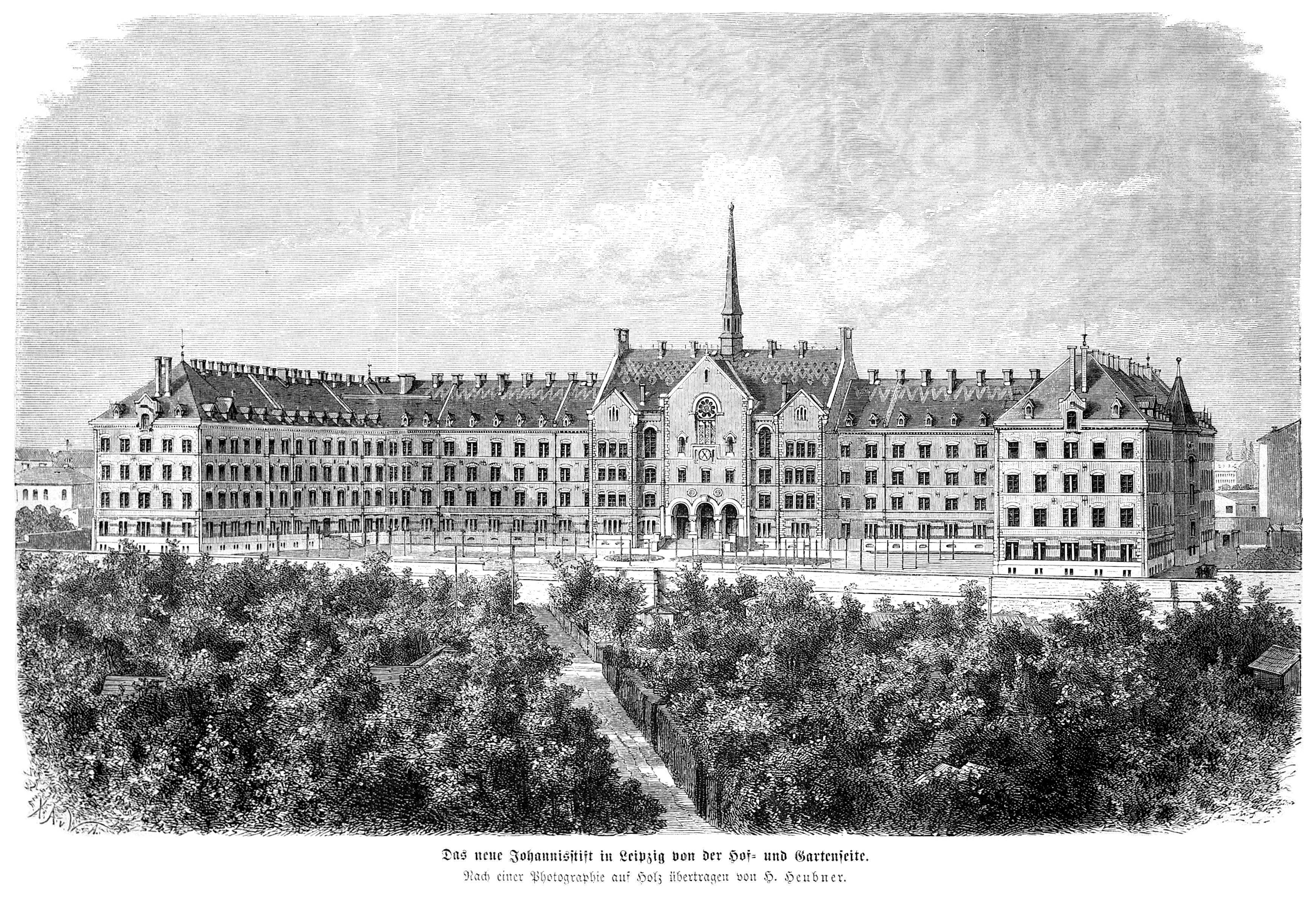 caption: "Das neue Johannisstift in Leipzig von der Hof- und Gartenseite. Nach einer Photographie auf Holz übertragen von H. Heubner."